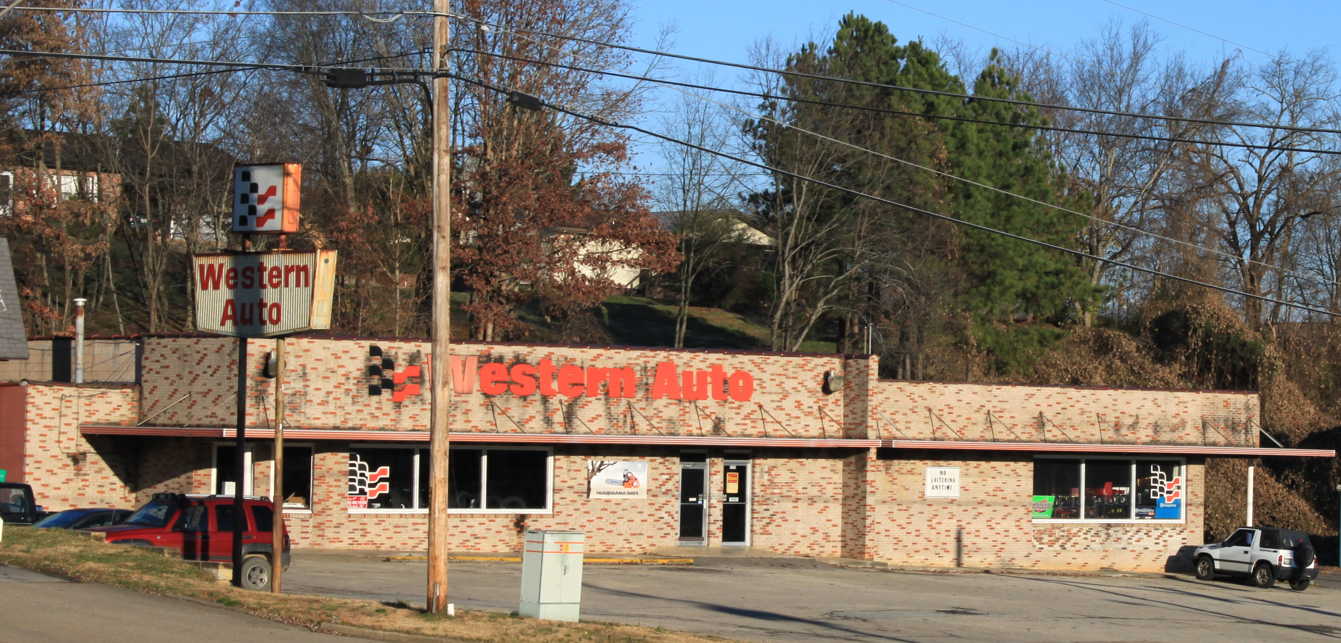 Western Auto Store, 535 Cosby Highway, Newport Tennessee-one of the few remaining Western Auto stores.